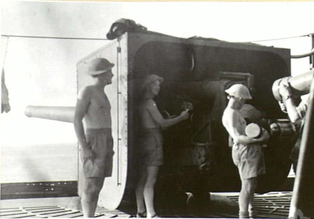 ON BOARD HM TRANSPORT LACONIA, AT SEA. LOADING A BL 6 INCH MARK VII GUN DURING GUN-DRILL ON BOARD WHILE ON THE VOYAGE RETURNING TROOPS OF THE A.I.F. TO AUSTRALIA FROM THE MIDDLE EAST. See also File:6 inch gun Laconia March 1942 AWM 028101.jpg